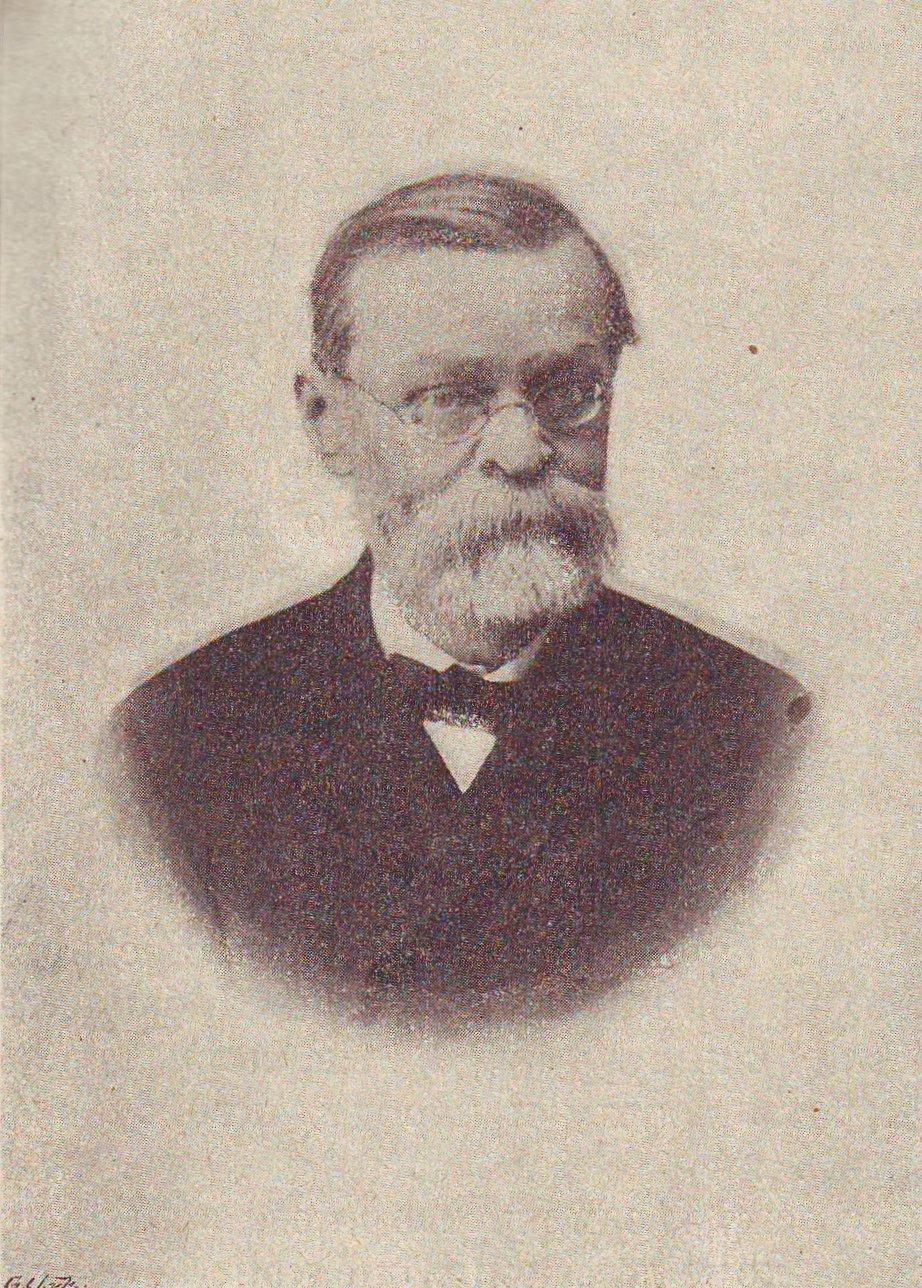 A photograph of Luka Zima (1830-1906), a Slovenian classical philologist and Slavist. Srpski (latinica): Fotografija Luke Zime (1830-1906), slovenačkog klasičnog filologa i slaviste.